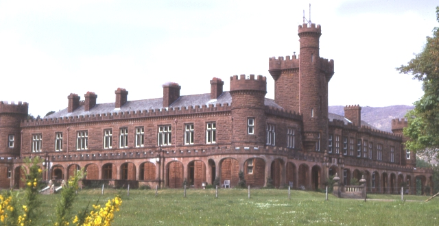 Kinloch Castle, on the Isle of Rum